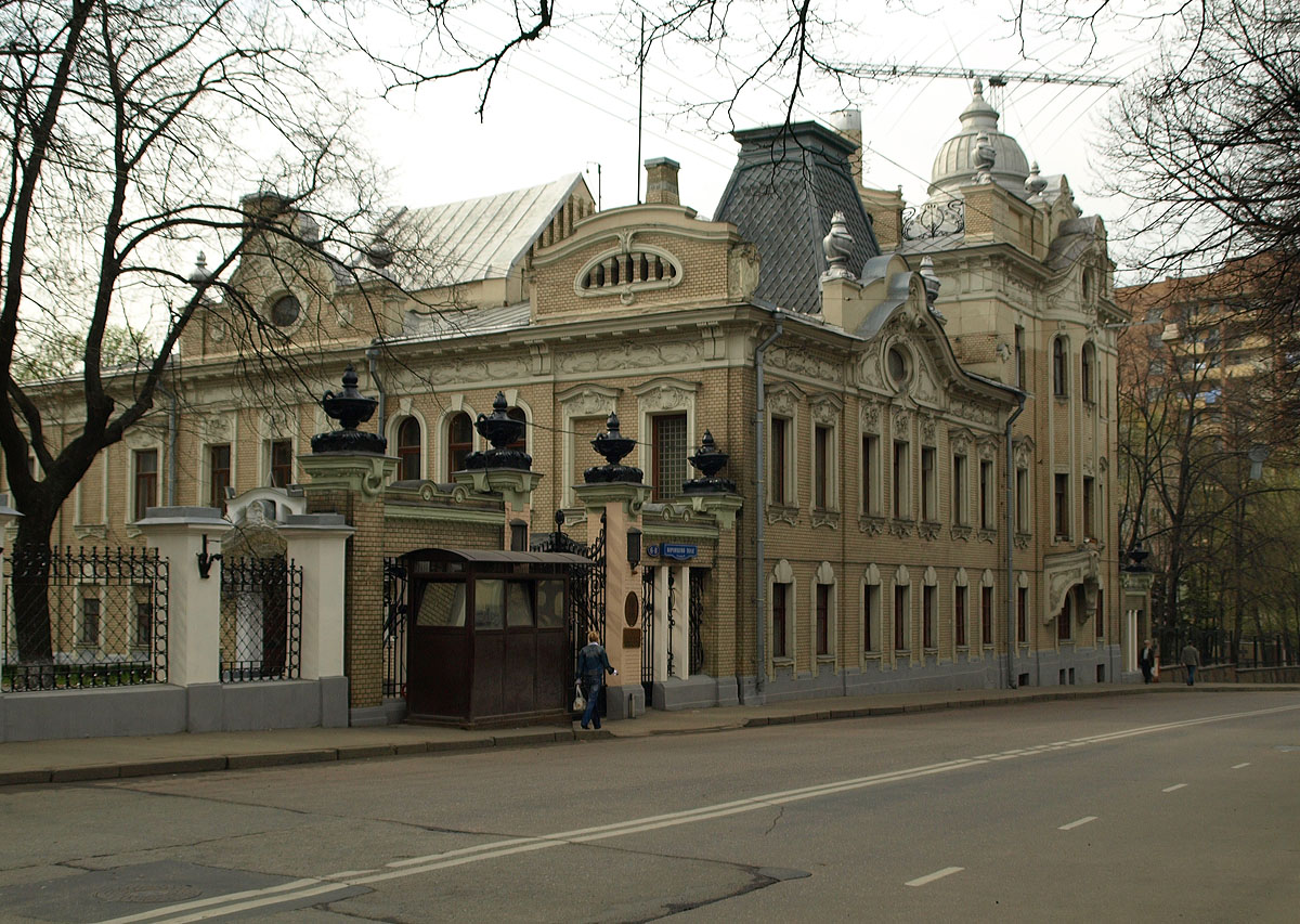 Embassy of India in Moscow (6, Vorontsovo Pole). 1911, architect: Ivan Baryutin (fence detail - Sergey Voskresensky)